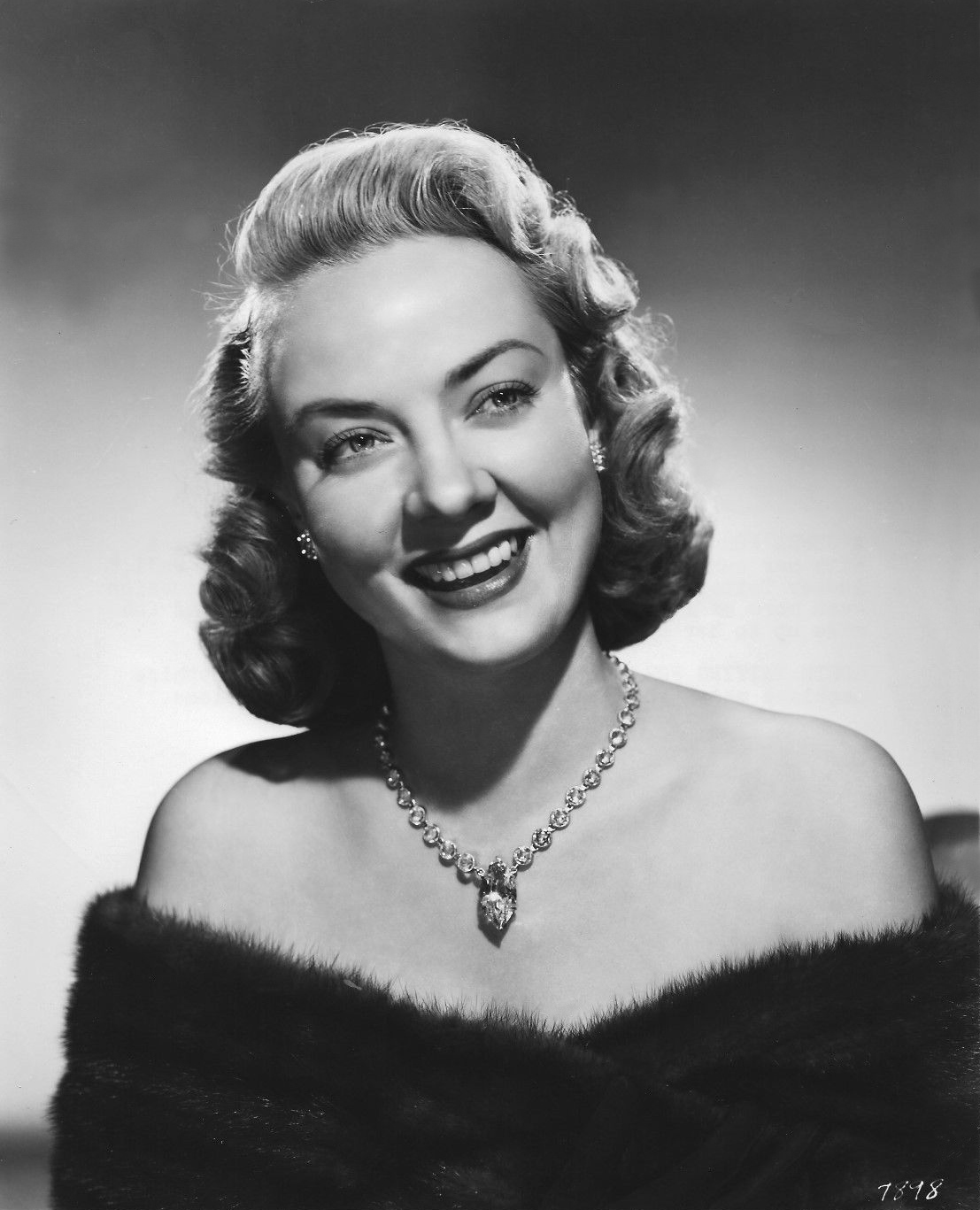 Publicity photo of Audrey Totter